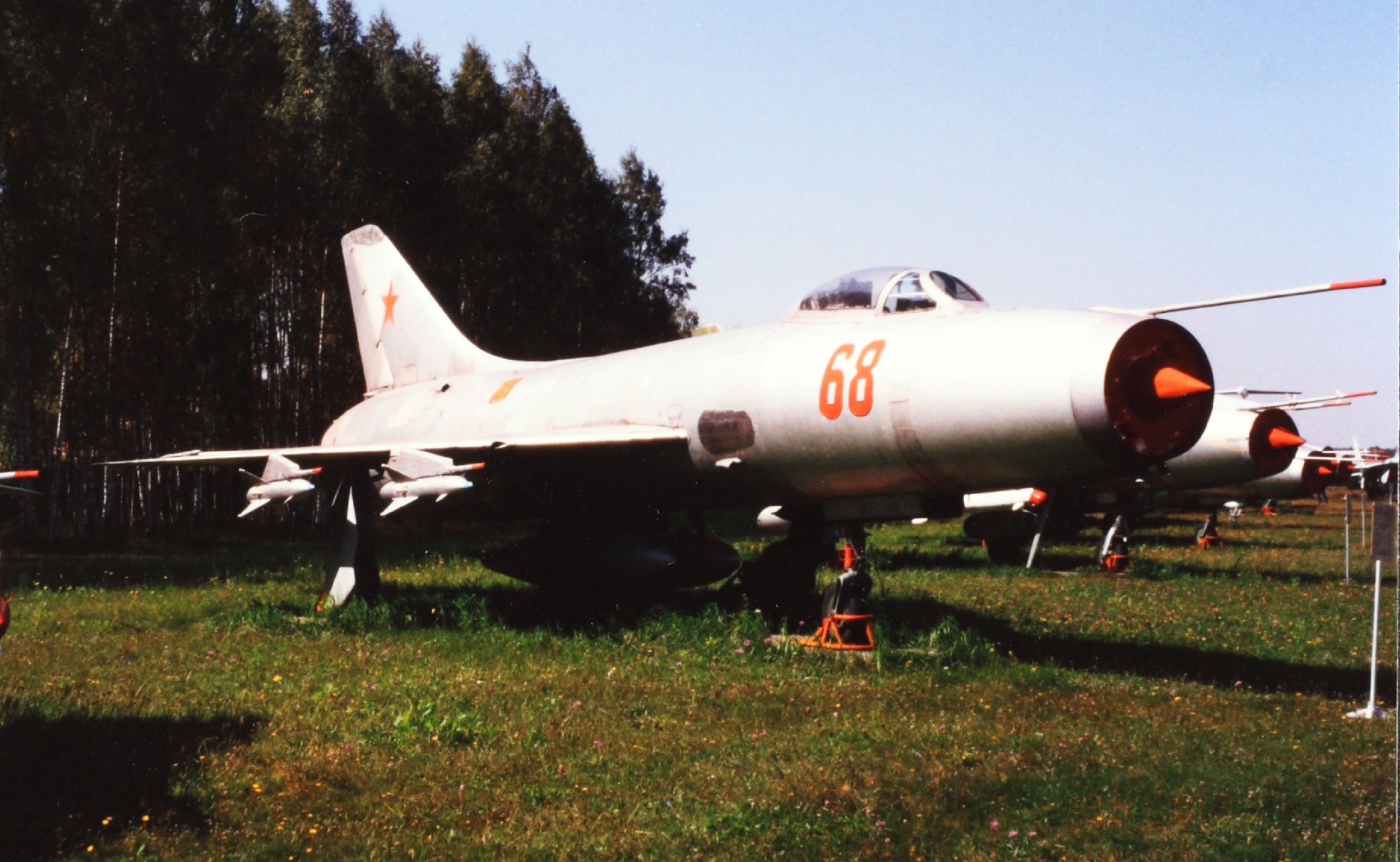 Catalog #: 01_00088312 Manufacturer: Sukhoi Official Nickname: Fishpot Designation: SU-9 Repository: San Diego Air and Space Museum Archive